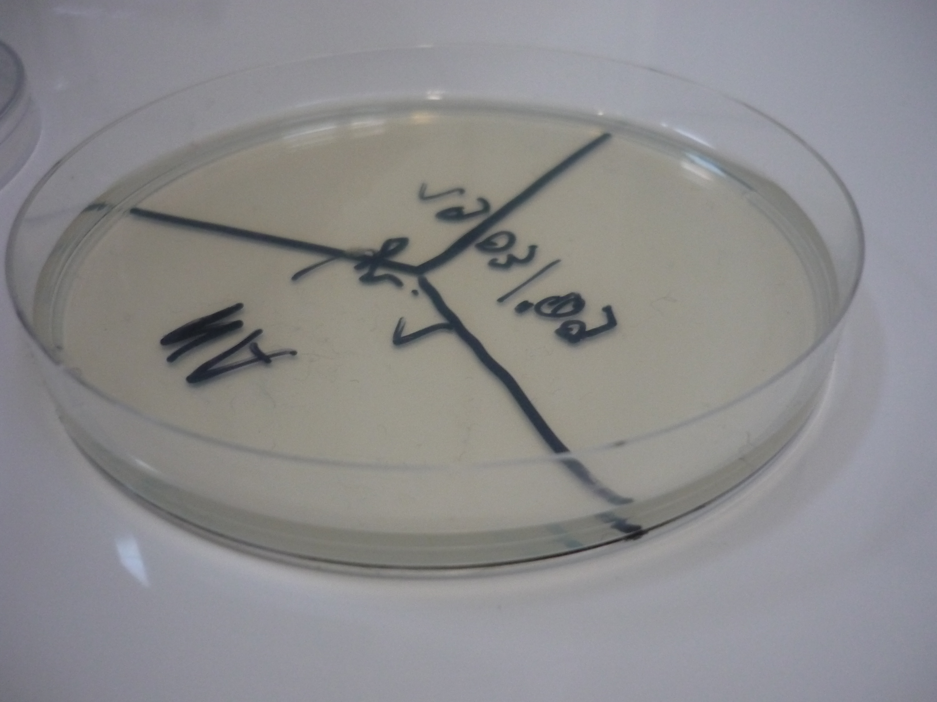 A petri dish with nutrient agar